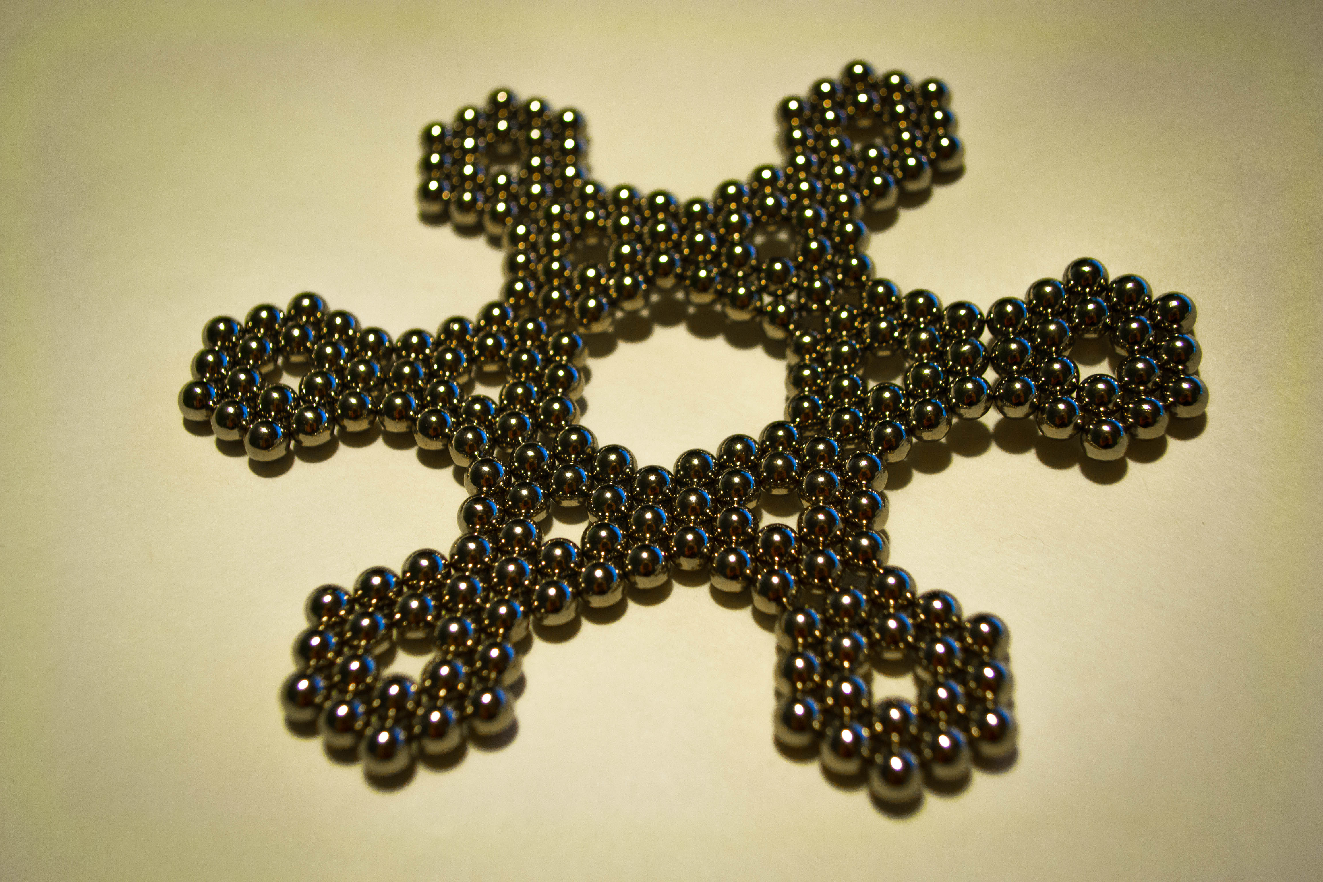 A pattern of Buckyballs